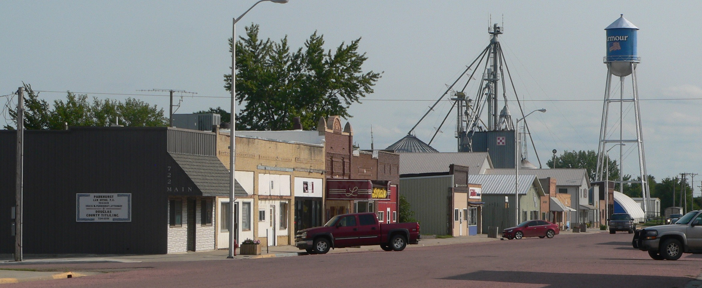 Downtown Armour, South Dakota: east side of Main Street, looking southeast from about 2nd Street.